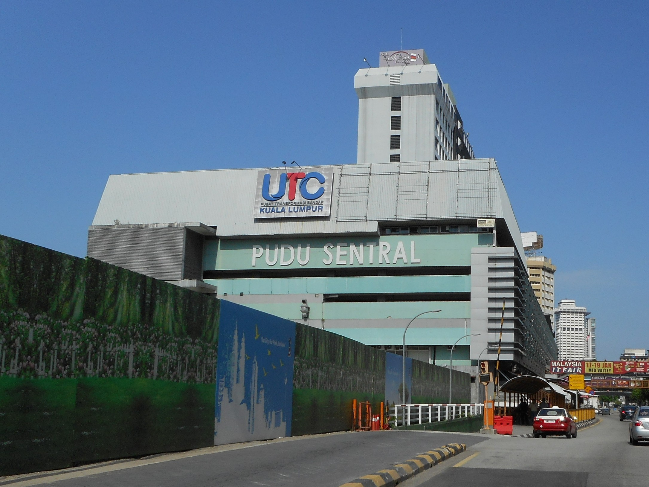 Pudu Sentral Bus Terminal, Kuala Lumpur, Malaysia